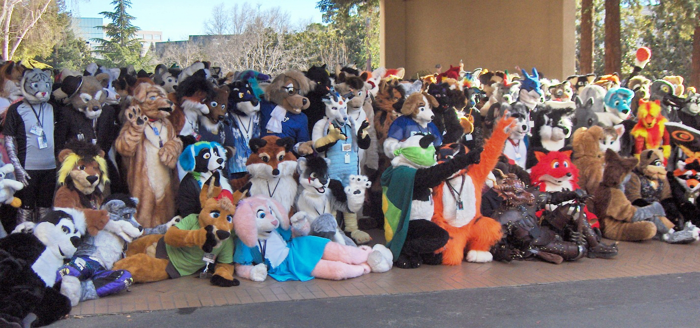 Photoshoot at the end of the fursuit parade at Further Confusion 2007.